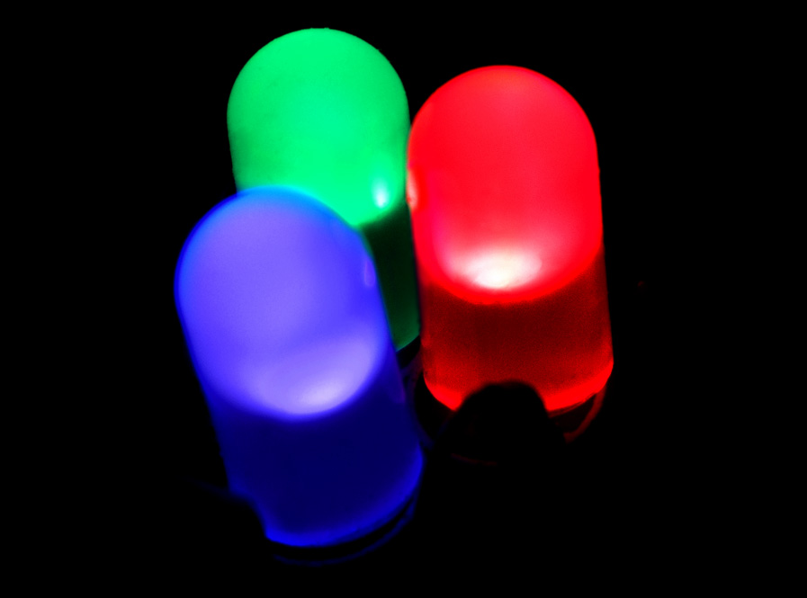 R, G, and B LEDs [7].